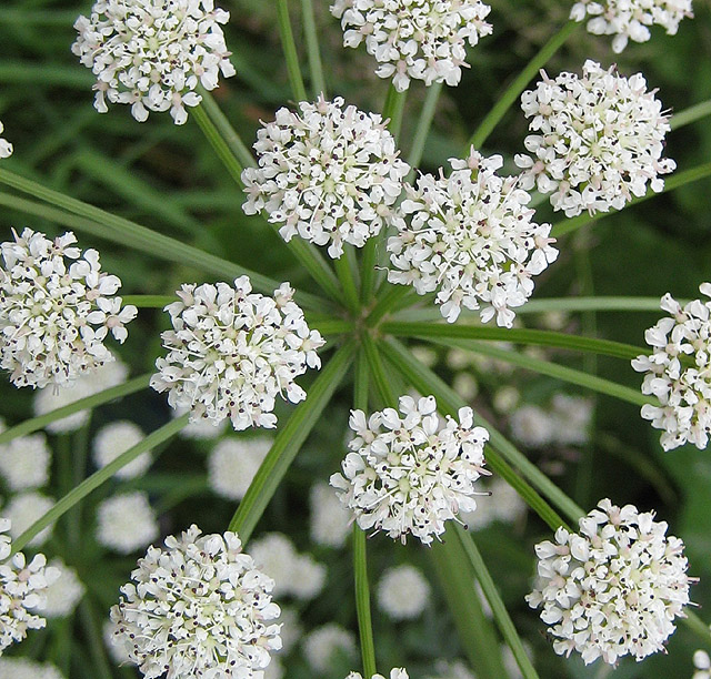 Floral starburst of Fool's parsley Botanical name, Aethusa cynapium. Sometimes known as Fool's Cicely or Poison Parsley, this poisonous plant has an unpleasant smell and bears beautiful umbels of white flowers.